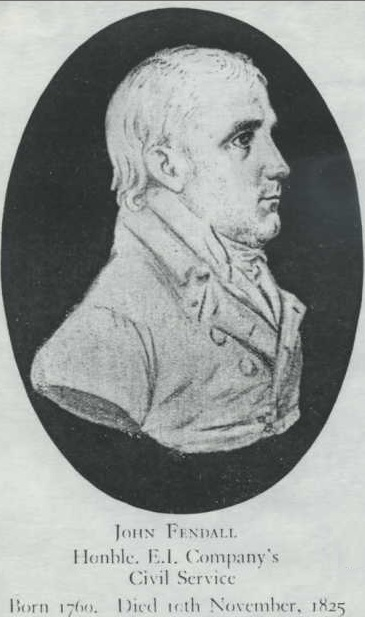 John Fendall Jr. Honble E.I. Company's Civil Service. Born 1760. Died 10th November, 1825